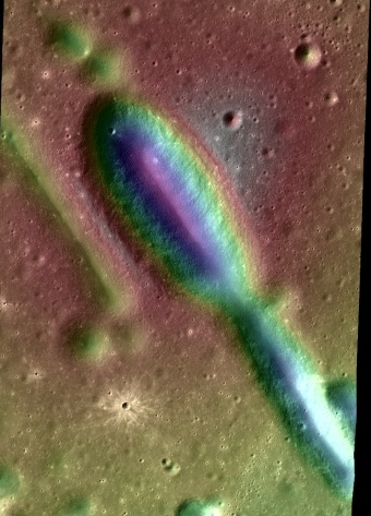 Birt E crater - LROC image with a color digital terrain model overlaid (color means height). North is up, and image width is ~3 km